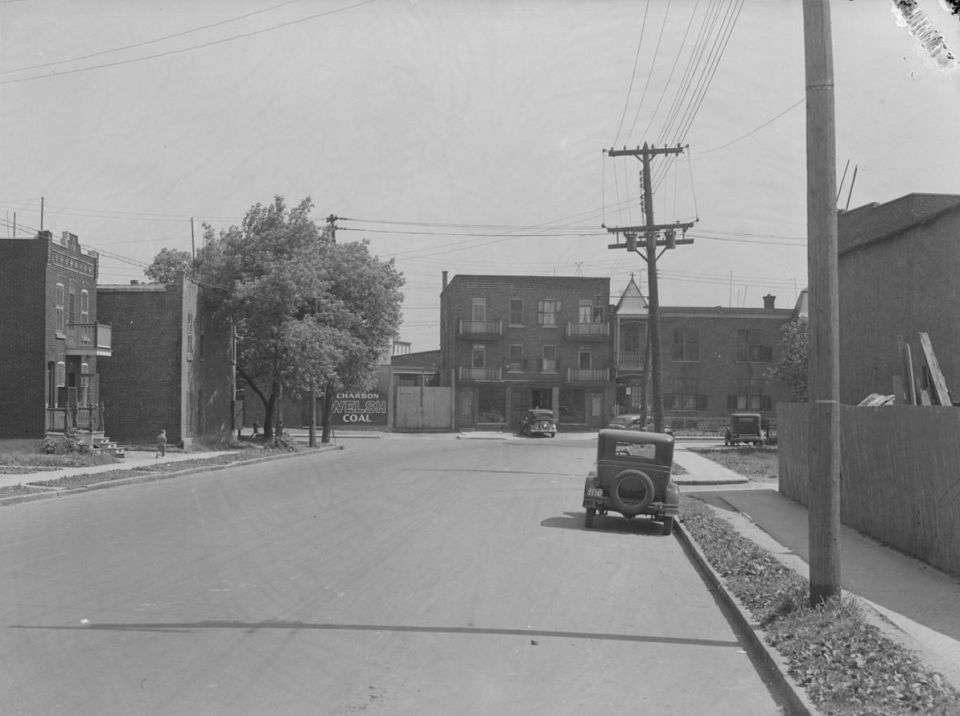 For documentary purposes the original description provided by BAnQ has been retained. Additional descriptive text may be added by Wikimedians with the wiki description = parameter, but please do not modify the other fields.